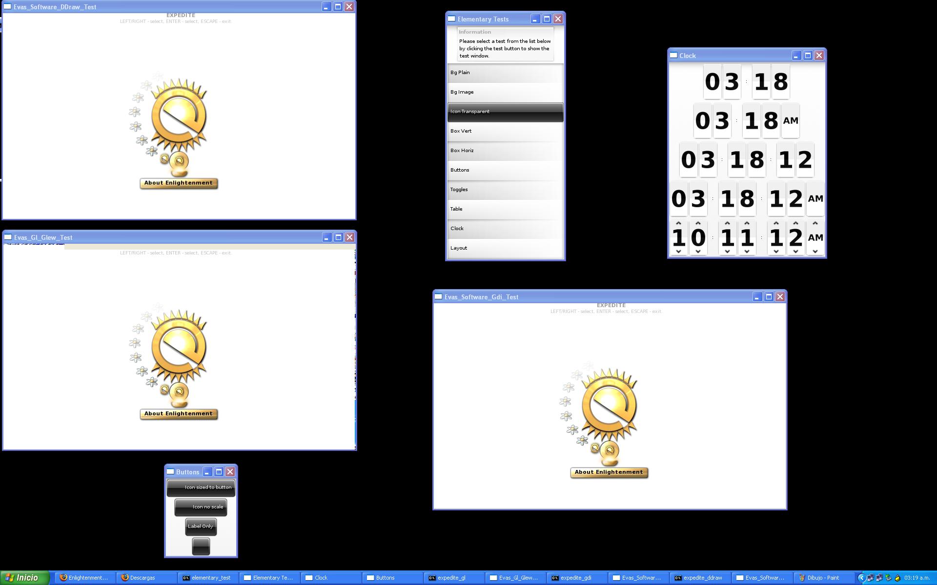 Enlightenment 0.17 in Windows XP (EFL)